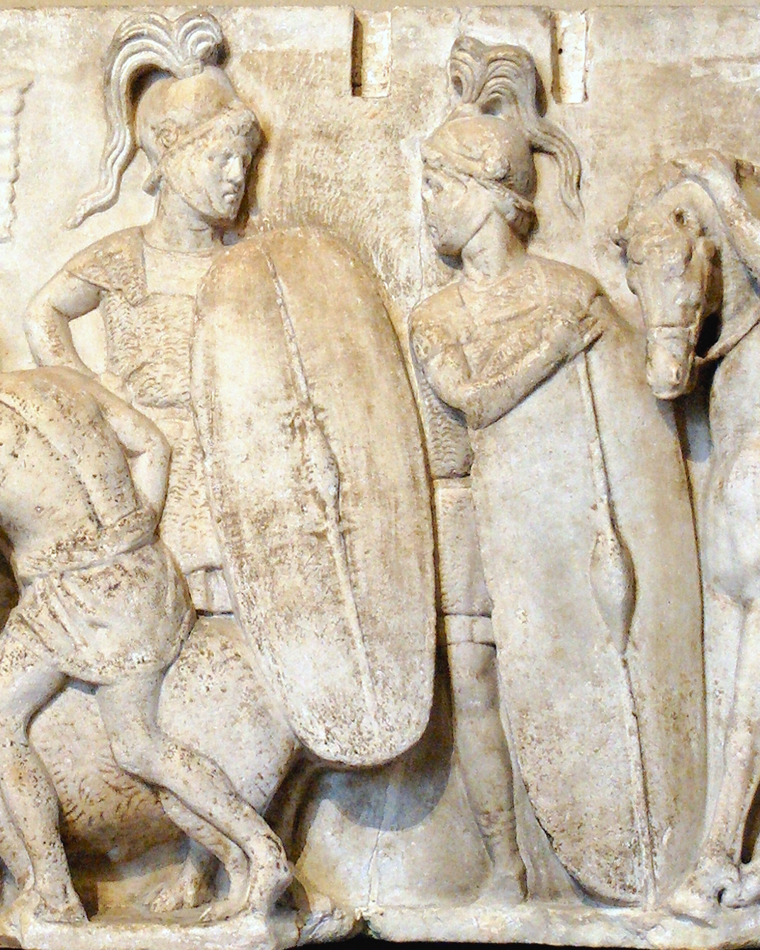 Sacrifice scene during a census: Right part of a plaque from the Altar of Domitius Ahenobarbus known as the “Census frieze”. Marble, Roman artwork of the late 2nd century BC. From the Campo Marzio, Rome.